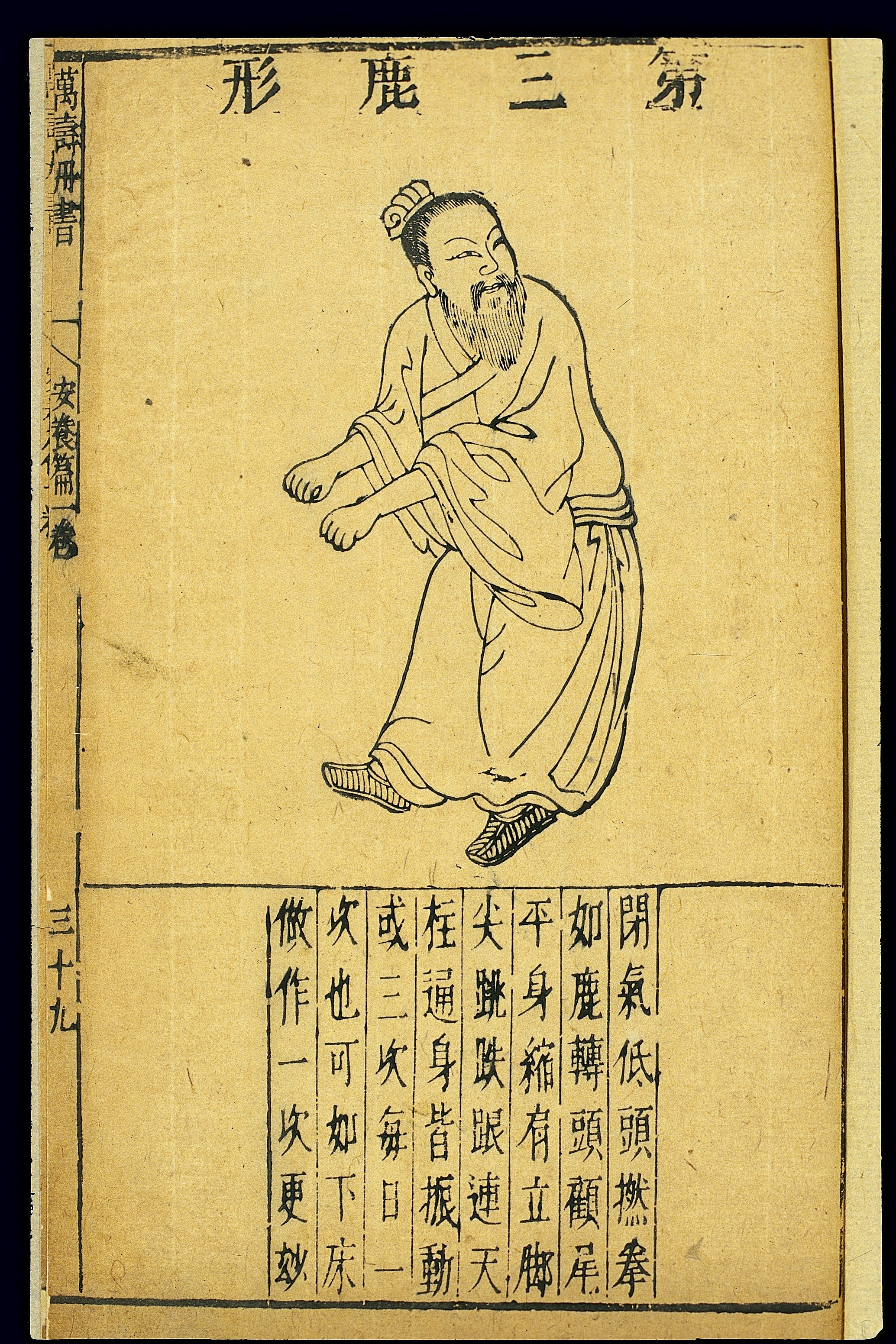 Wanshou danshu(The Cinnabar Book of Longevity) is a 'nourishing life' (yang sheng) text composed in the Ming period (1368-1644) by Gong Juzhong. It records a far more ancient practice known asWu qin xi(Play of the five creatures). This is a form of therapeutic gymnastics based on the mimesis of animal movements. Already described inHua Tuo Zhuan(The Book of Hua Tuo [?-203 CE])Hou han shu(History of the Later Han Dynasty), it probably represents a pre-Han popular tradition. This illustration depicts the third of the 'plays of the five creatures' -lu xi, the play of the deer. It is performed as follows: One holds one's breath, lowers one's head and clenches one's fists, and turns one's head like a deer to look right behind one. Straightening up and hunching one's shoulders, one leaps and prances on tiptoe, shaking the whole body from the neck to the heels. This is done about three times, once every day. Wellcome Images Keywords: Medicine, Chinese Traditional; Exercise Therapy; Exercise Movement Techniques